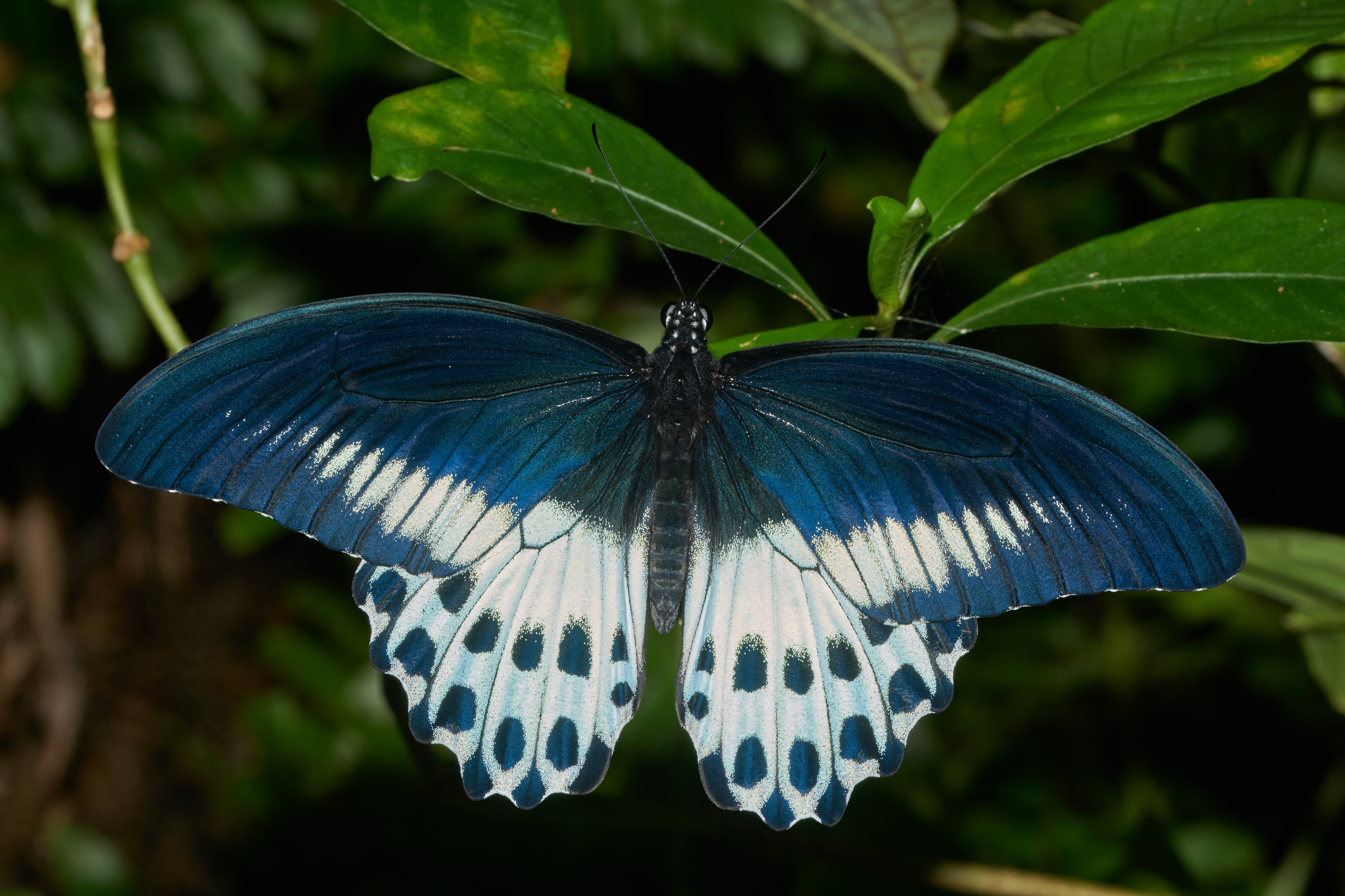 Papilio polymnestor, Blue Mormon, is a large swallowtail butterfly found in South India and Sri Lanka.